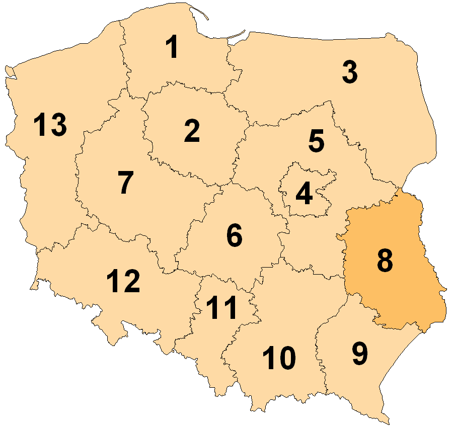 Lublin (European Parliament constituency) - European Parliament constituencie in Poland